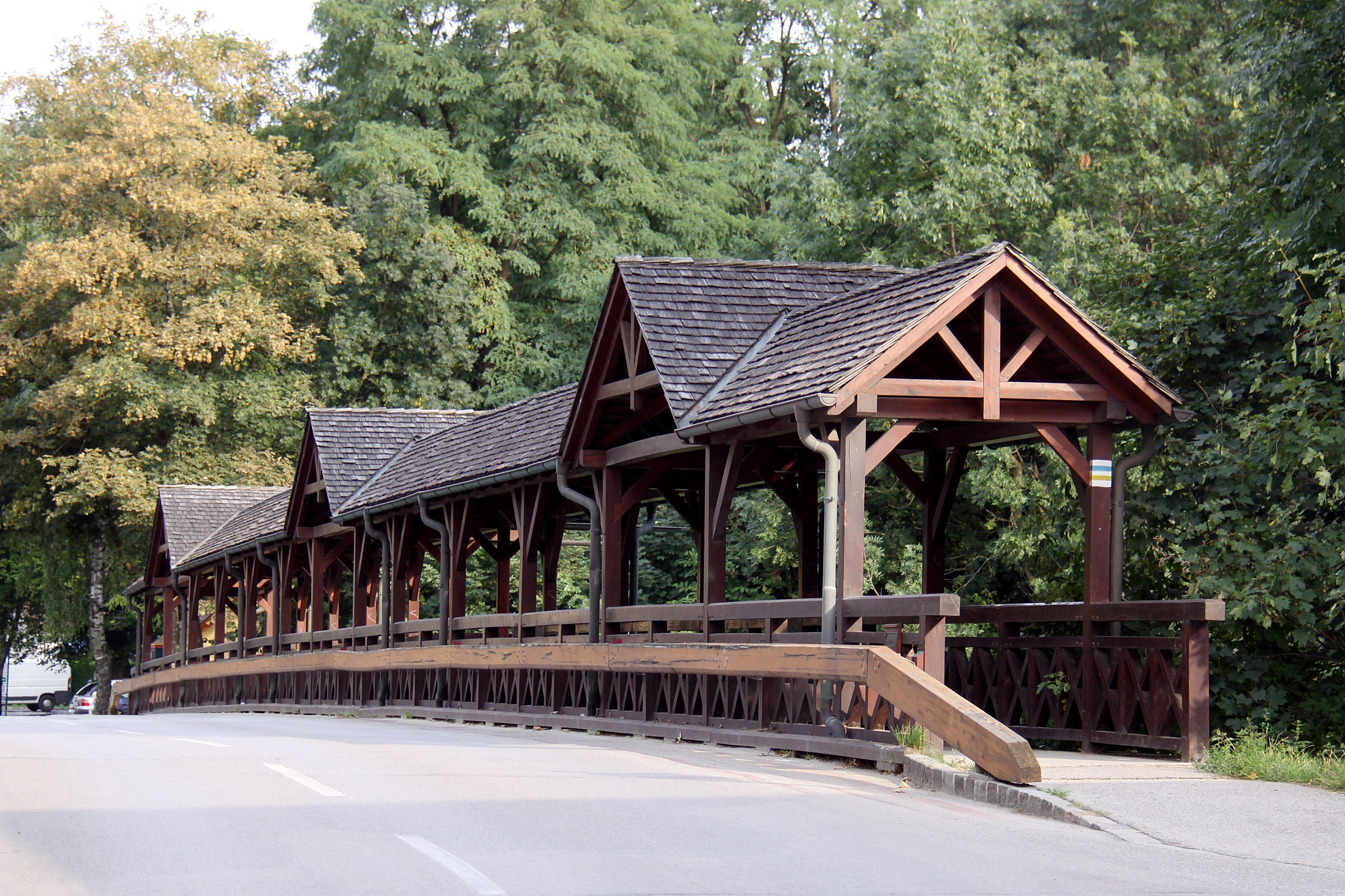 Bridge across Leitha river in Katzelsdorf, Lower Austria